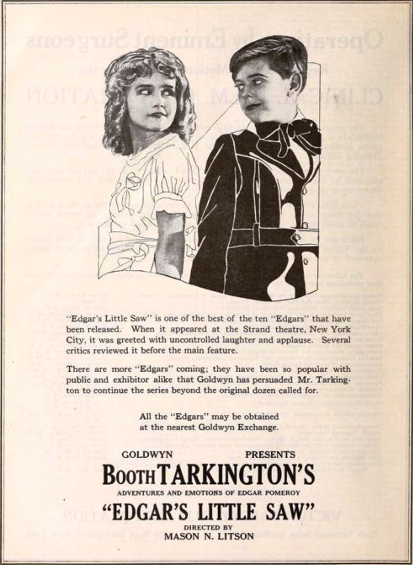 Advertisement for the American film Edgar's Little Saw (1920) with Lucille Ricksen and Edward Peil, Jr. (credited as Johnny Jones), from page 34 of the February 1921 Motion Picture Age. This short film was one of the 12 part film series called The Adventures and Emotions of Edgar Pomeroy.